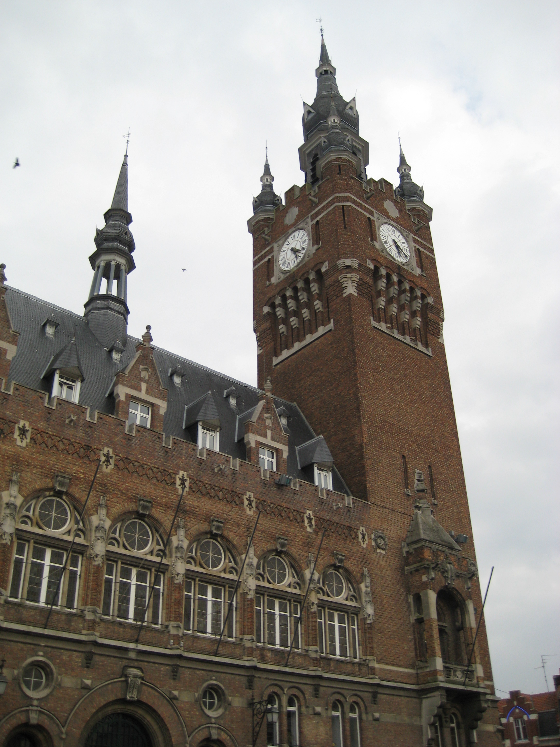 Armentières, France – Belfry of the town hall.